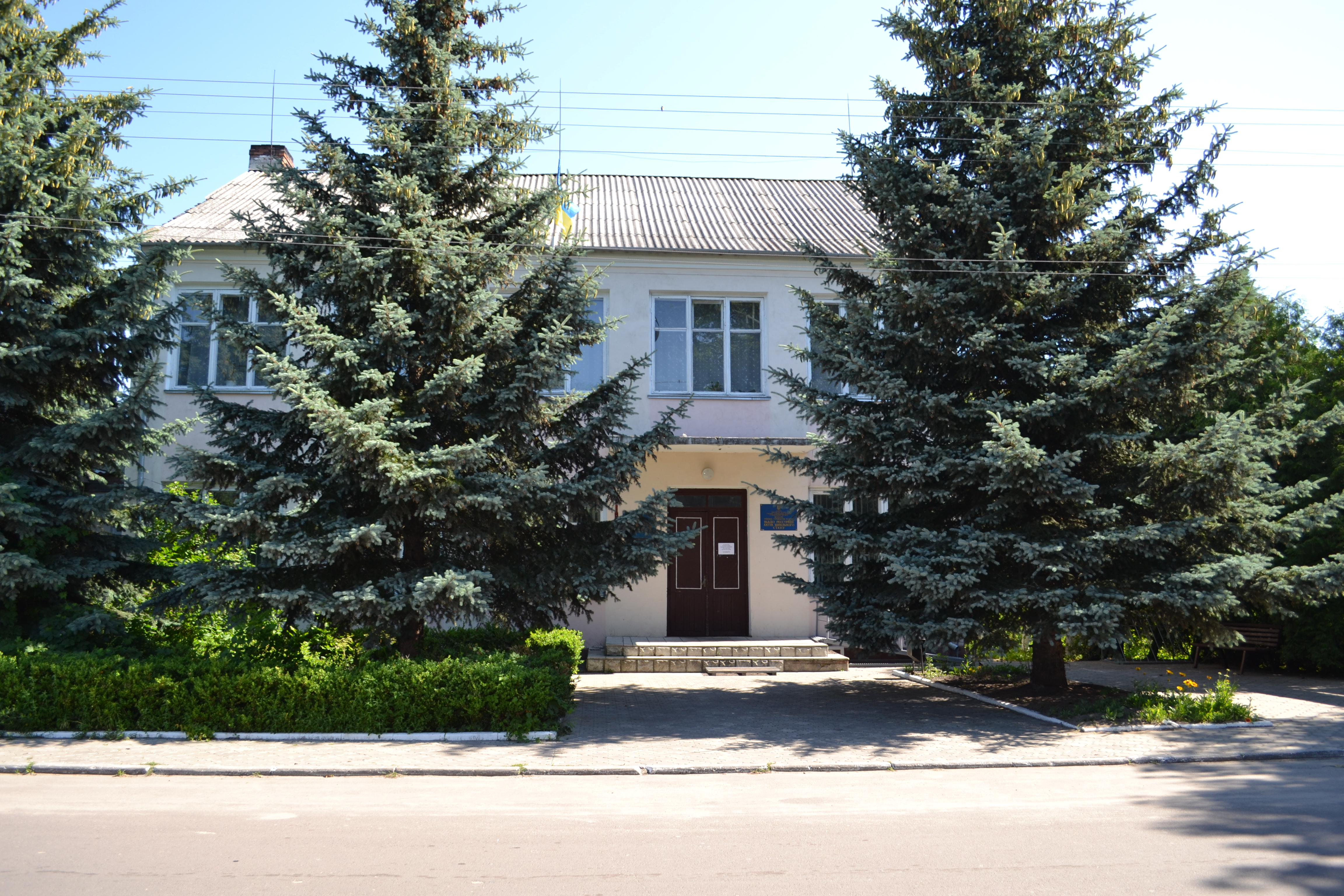 Urban-type settlement Council in Shatsk, Ukraine